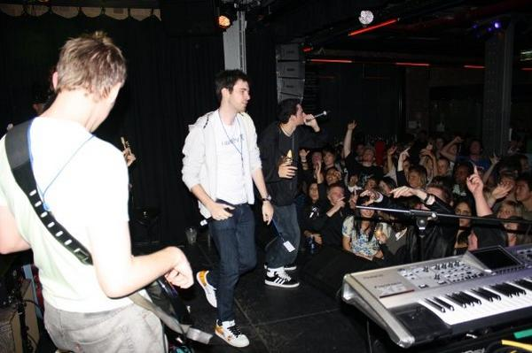 Taken from the Mind Over Matter and Coptic Soldier DOUBLE LAUNCH at the Oxford Art Factory in Syndey